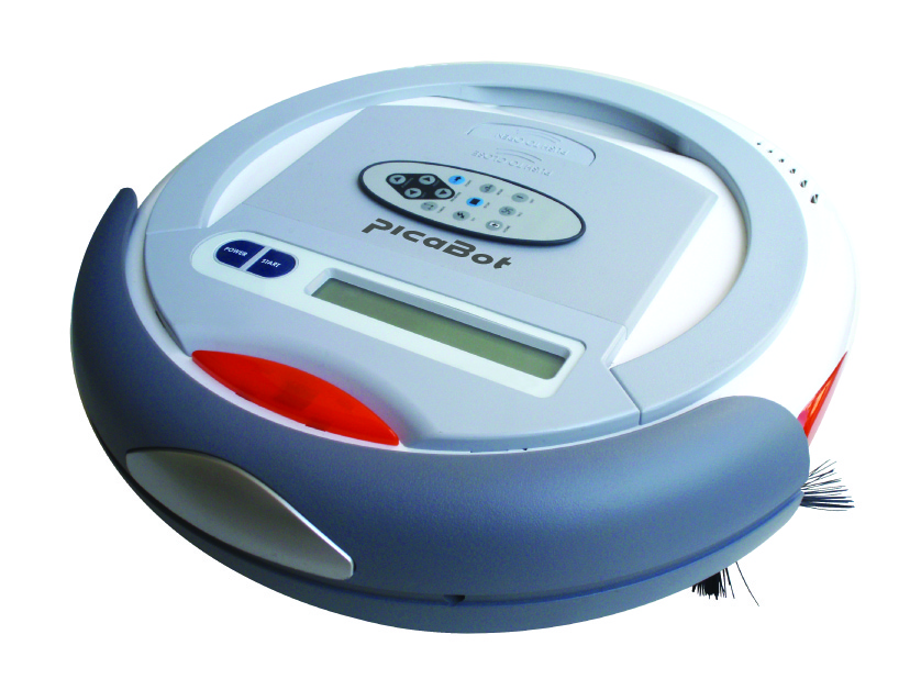 picaBot, a smart vacuuming robot.